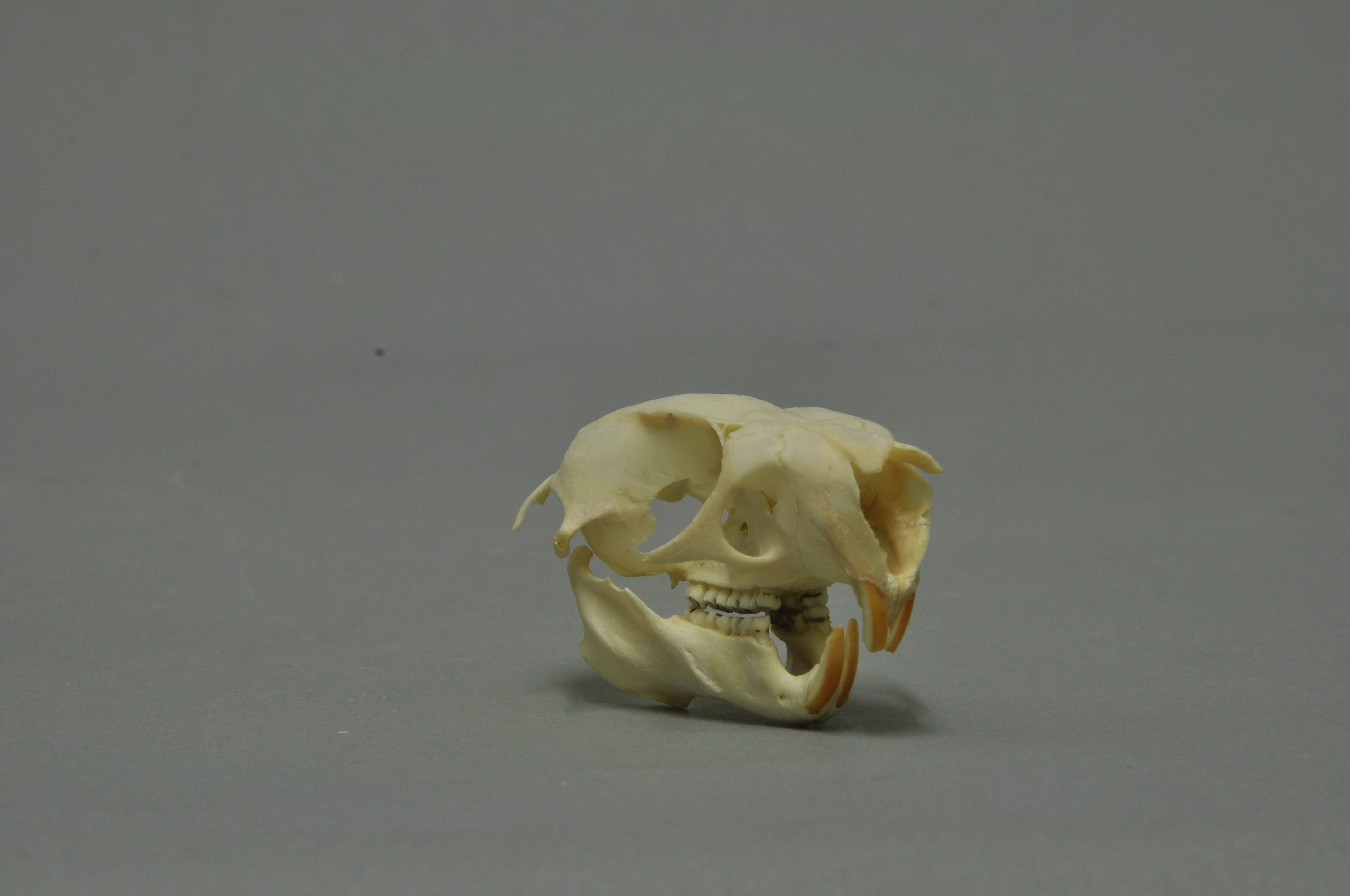 Beecroft's Scaly-tailed SquirrelAnomalurus beecrofti, skull, Coll. Museum Wiesbaden